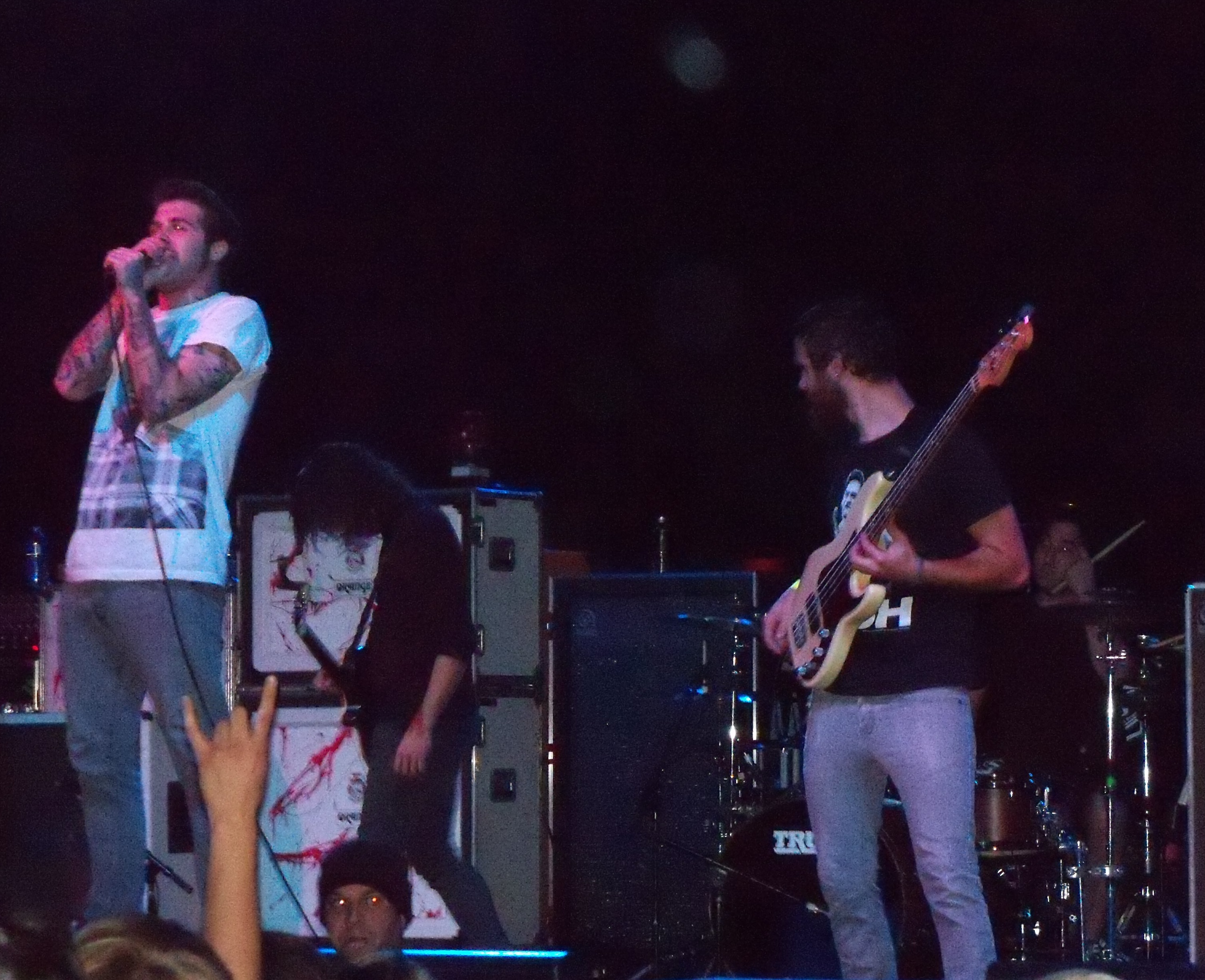 The band, Of Mice & Men performing in 2010 in Tempe, Arizona.